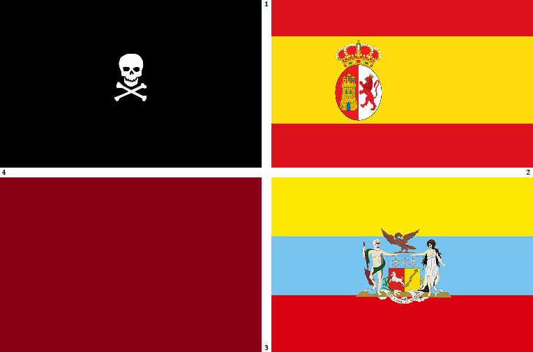 A collection of flags that have been associated with the pirate captain Roberto Cofresí. Clockwise: 1) The stereotypical Jolly Roger. 2) The flag of the Kingdom of Spain. 3) The flag of Gran Colombia. 4) The red flag associated with social resistance in Puerto Rico during the 19th century. Self-made and completed with these public domain images: Flag_of_the_Gran_Colombia_(1822_proposal) and File:Flag_of_Spain_(1785-1873_and_1875-1931).svg